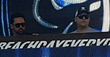 Aly & Fila photographed in Pointe-Calumet, Québec, Canada at Beachclub.